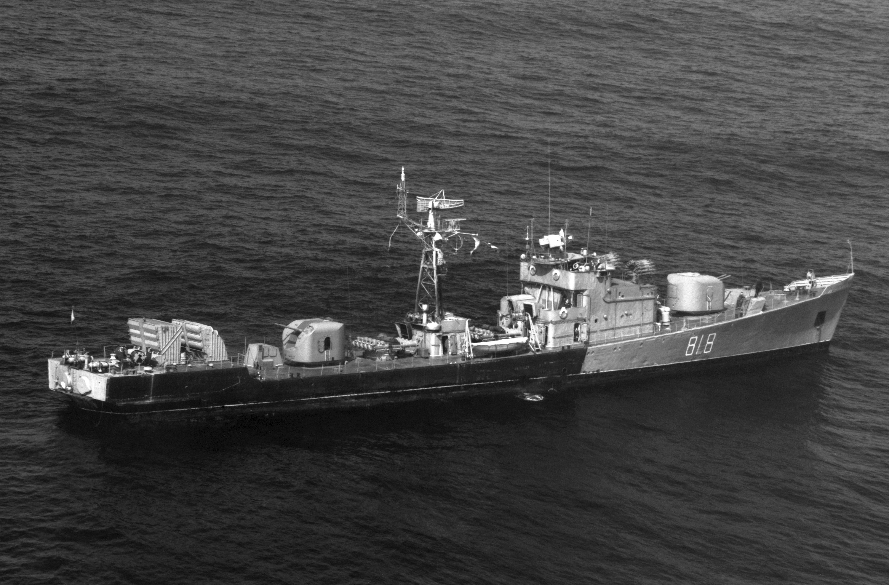 An elevated starboard quarter view of a Soviet Mirka I class anti-submarine frigate.